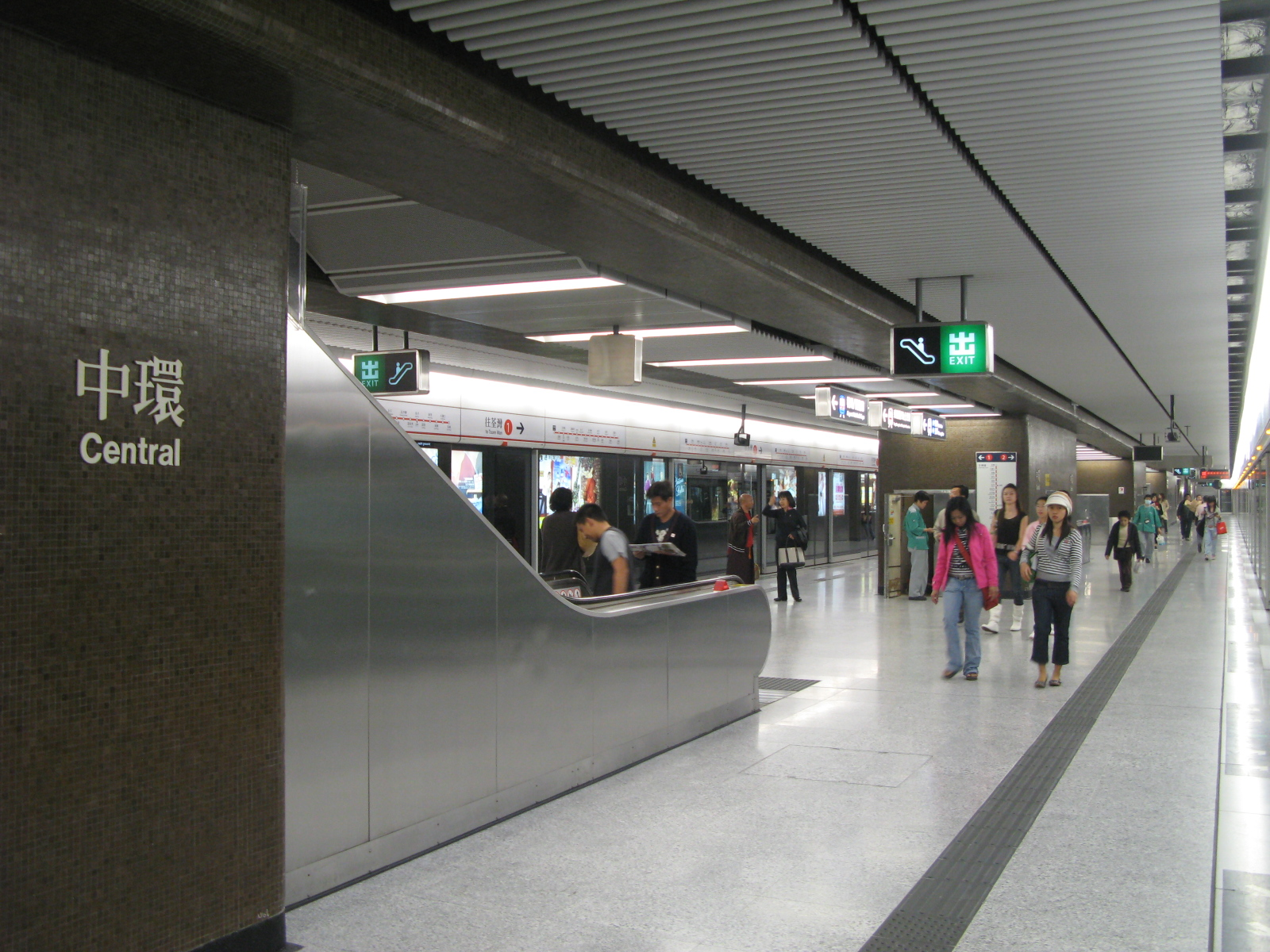 HK HKMTR Central Station